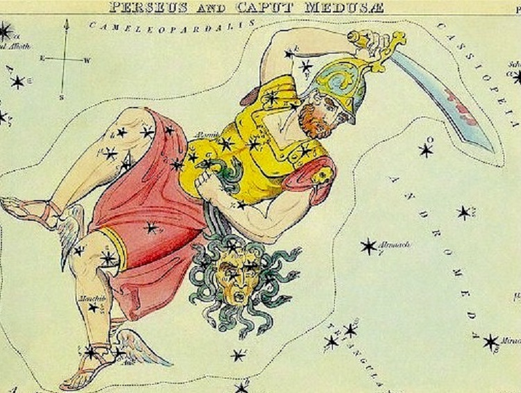 Drawing of Perseus The Champion, the Rescuer by Samuel Leigh, 1824